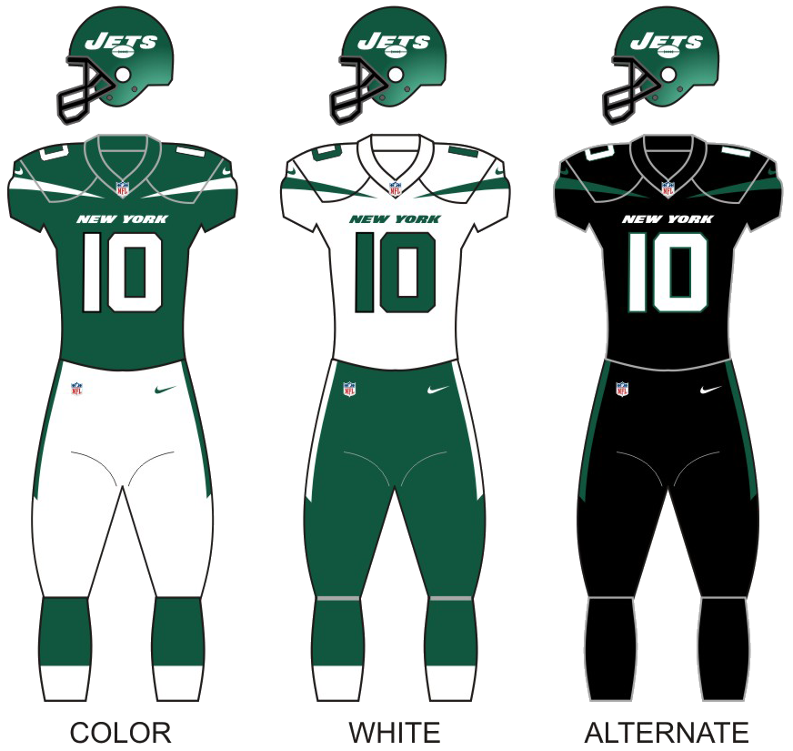 The uniforms of the New York Jets since the 2019 NFL season.